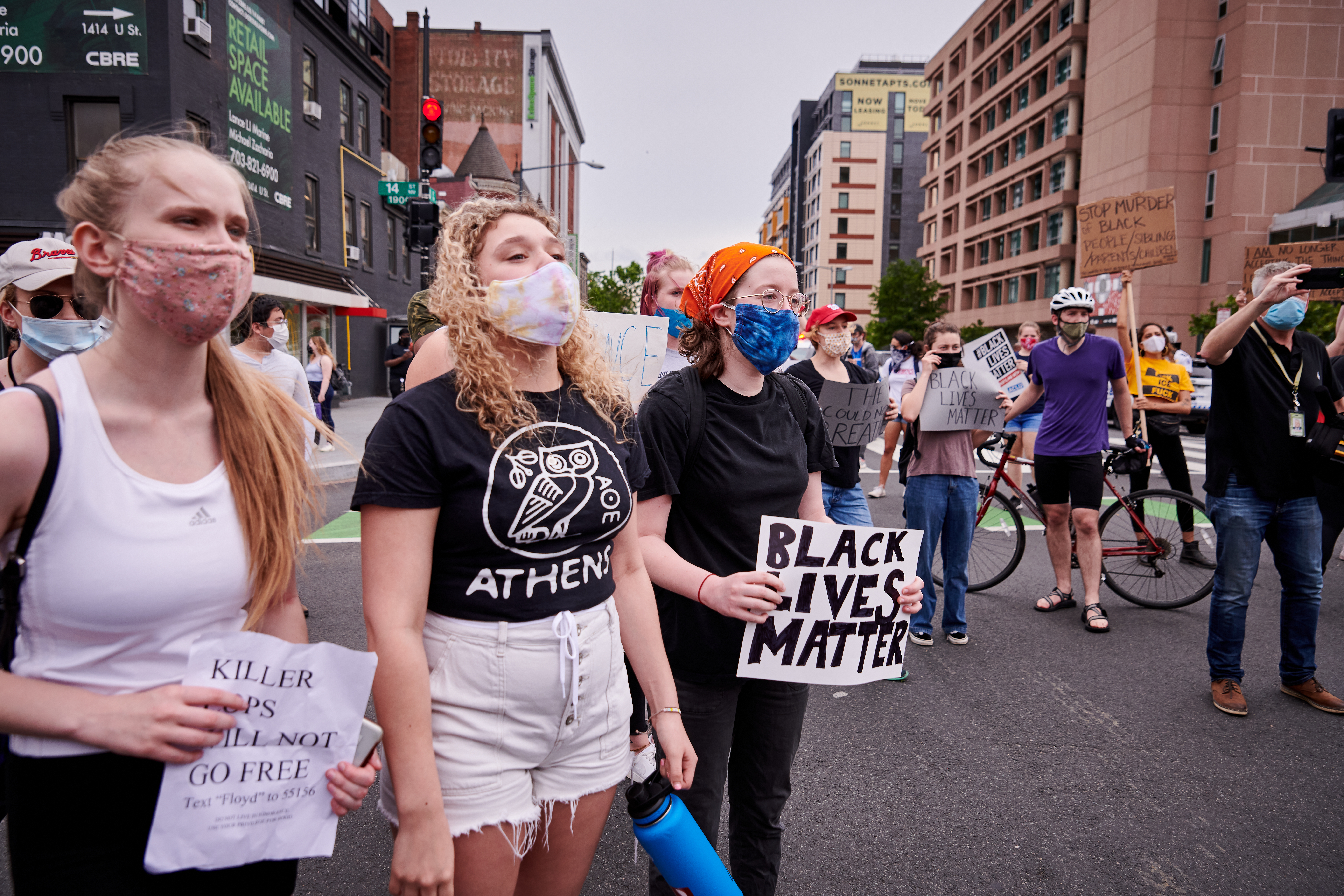 Photos from today's George Floyd BlackLivesProtest in Washington, DC.